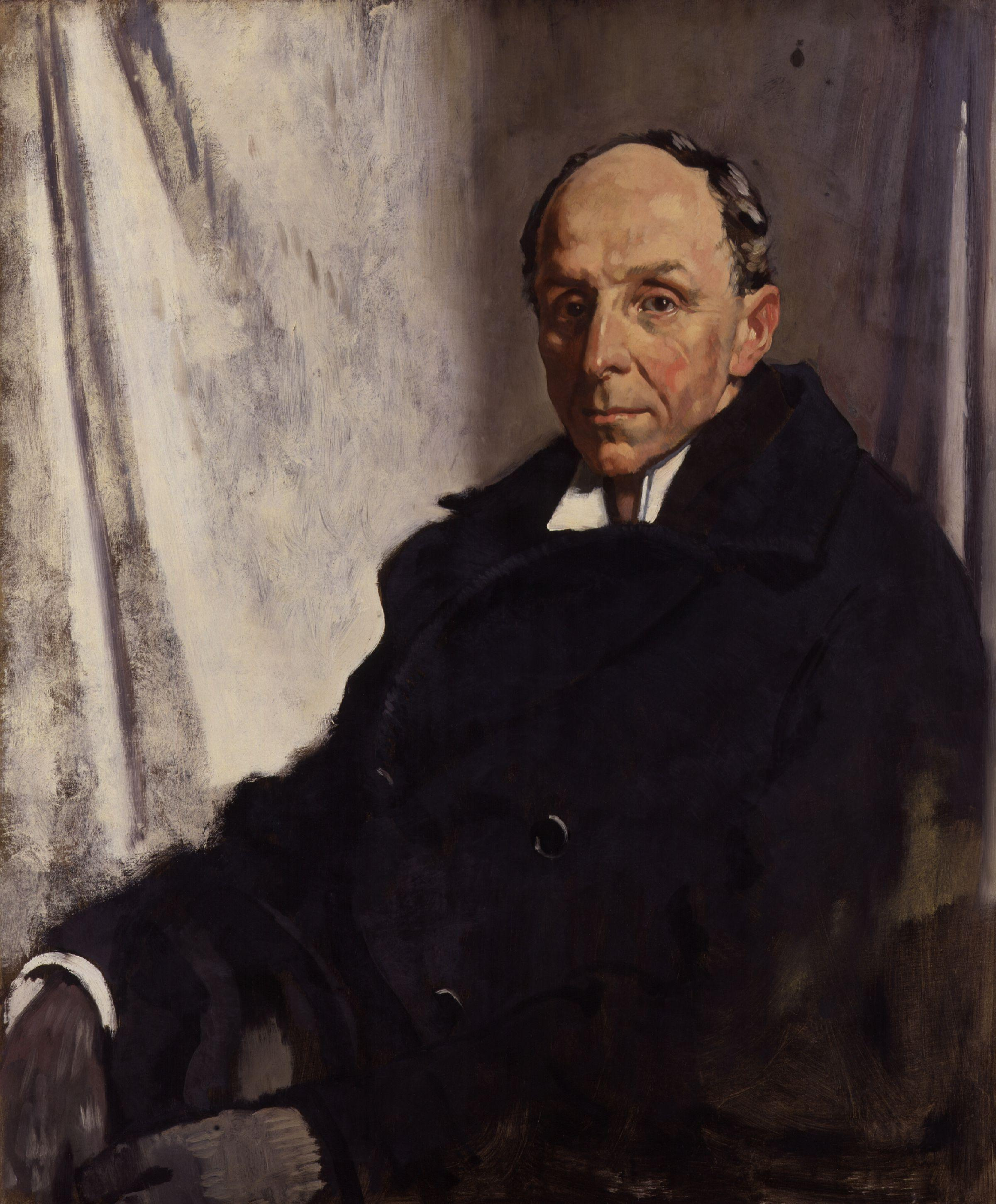 given to the National Portrait Gallery, London in 1960. All images in this batch have been confirmed as author died before 1939 according to the official death date listed by the NPG.